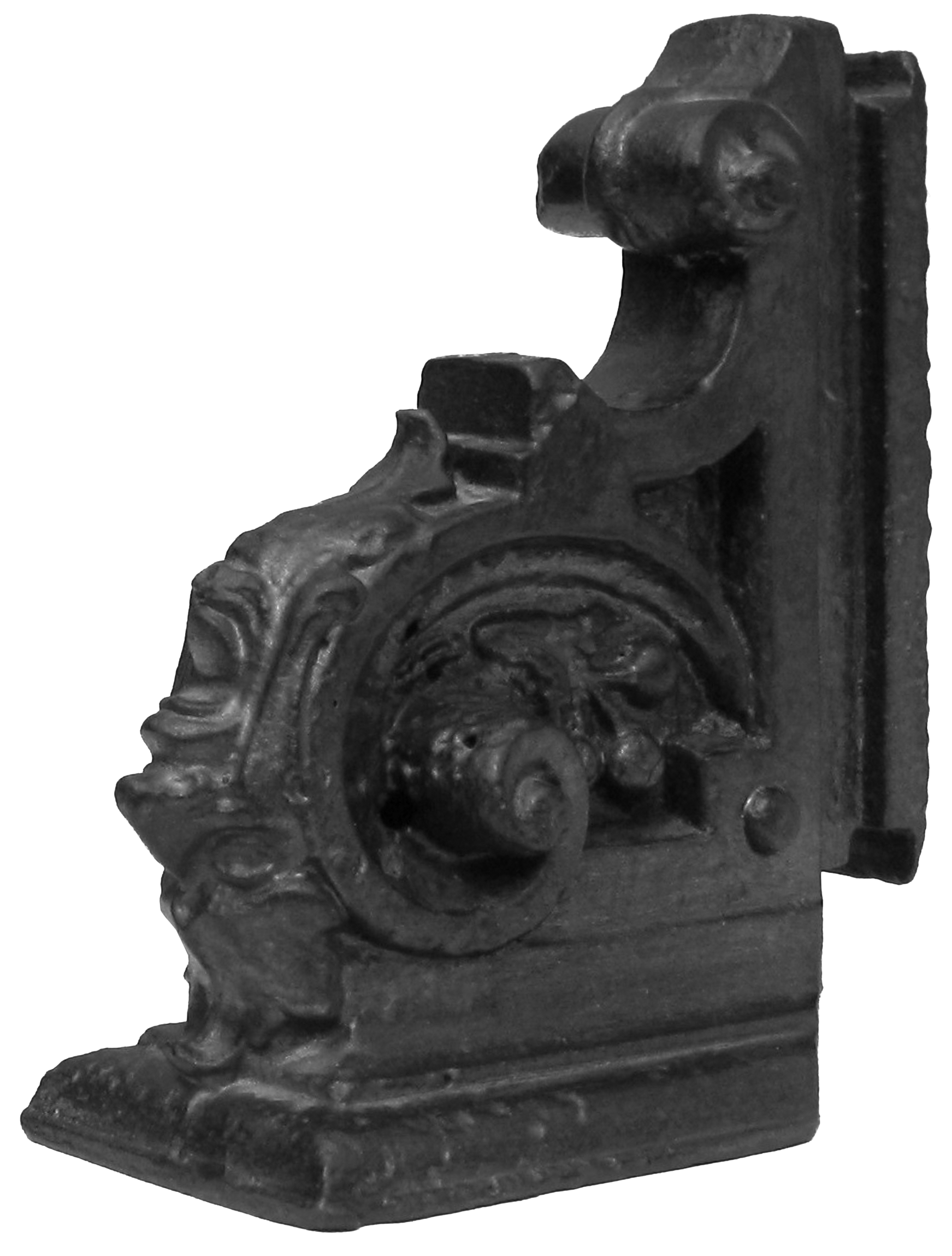 A cast iron sand casting — originally white, then painted black. One of twelve support corbel brackets of the roof of a pavilion. The entire pavilion was built in the same style and of cast iron parts (manufactured by a company in Frankfurt am Main) around 1900 in the Kreuznach Kurpark.